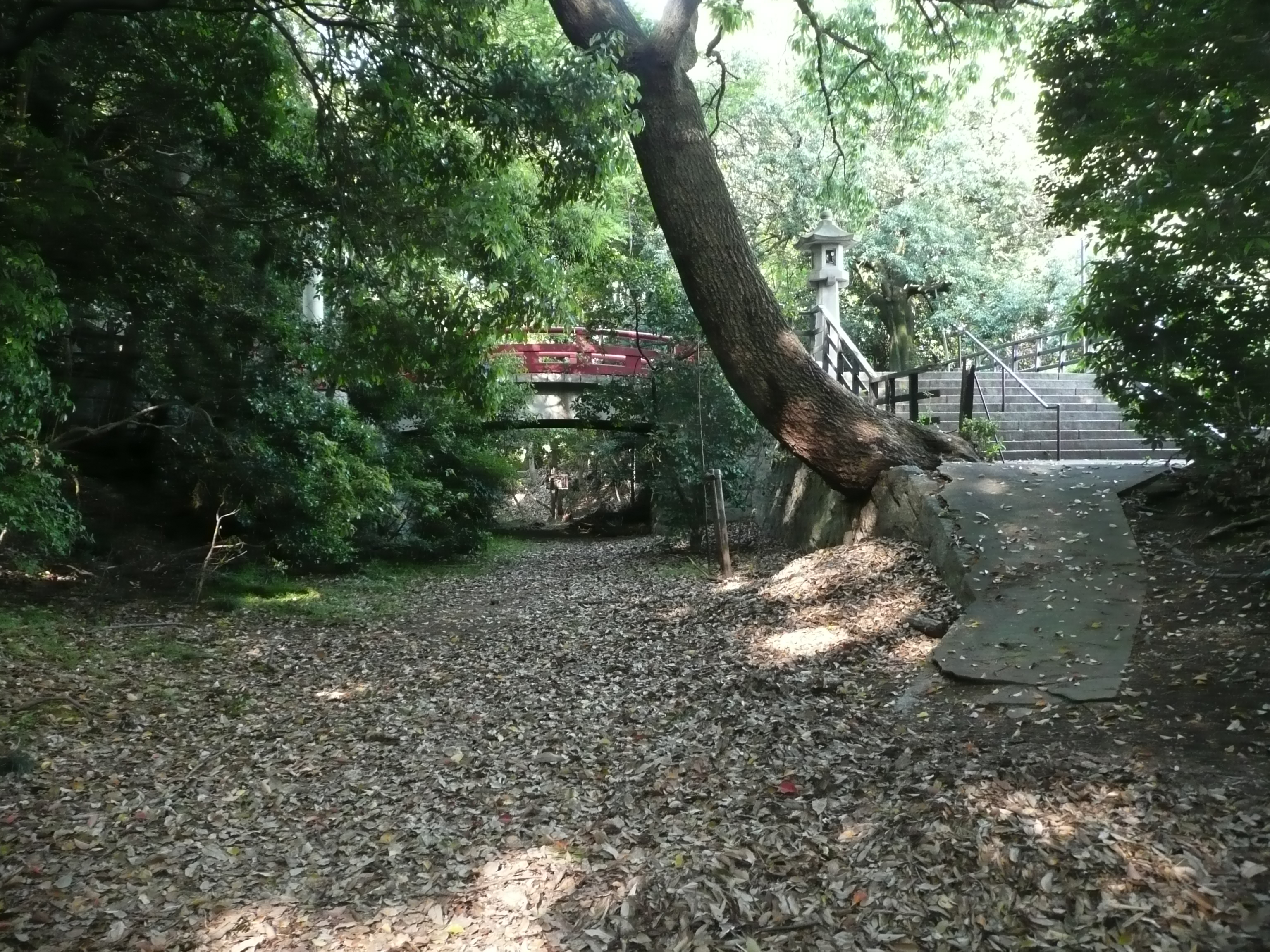 末森城の空堀